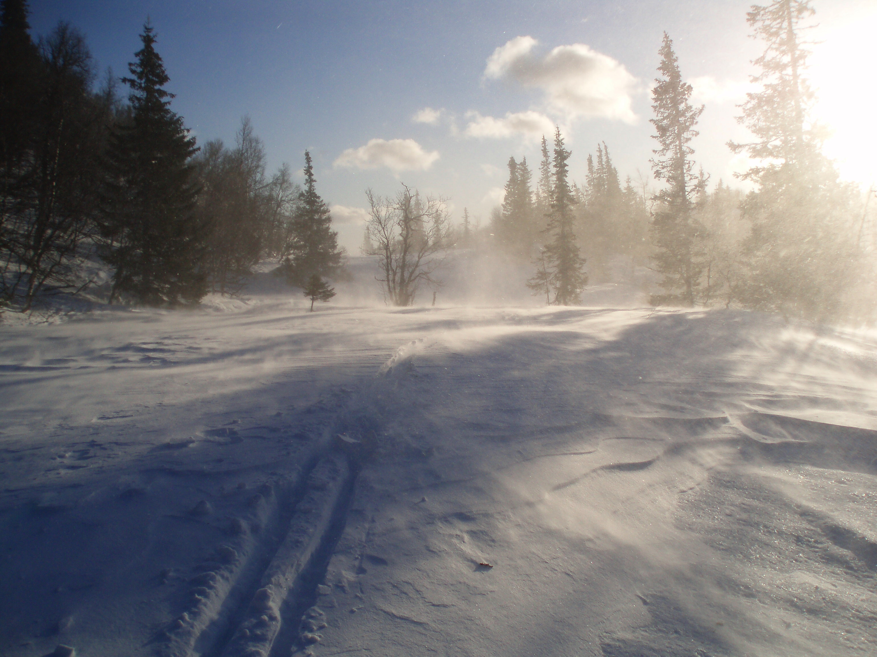 Blowing snow in the mountain, Norway. Picture is taken in the municipality of Seljord, Telemark.